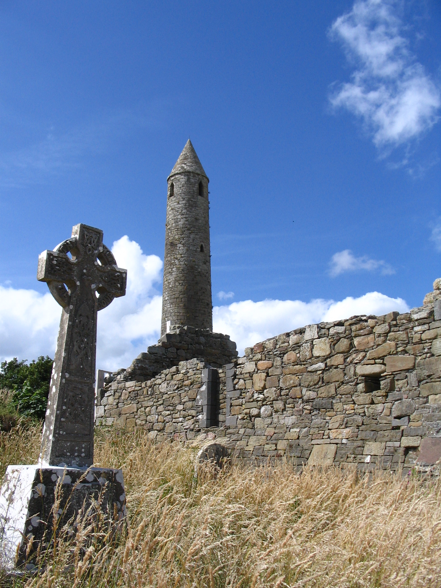 Ratoo Round Tower, Kerry - Ireland